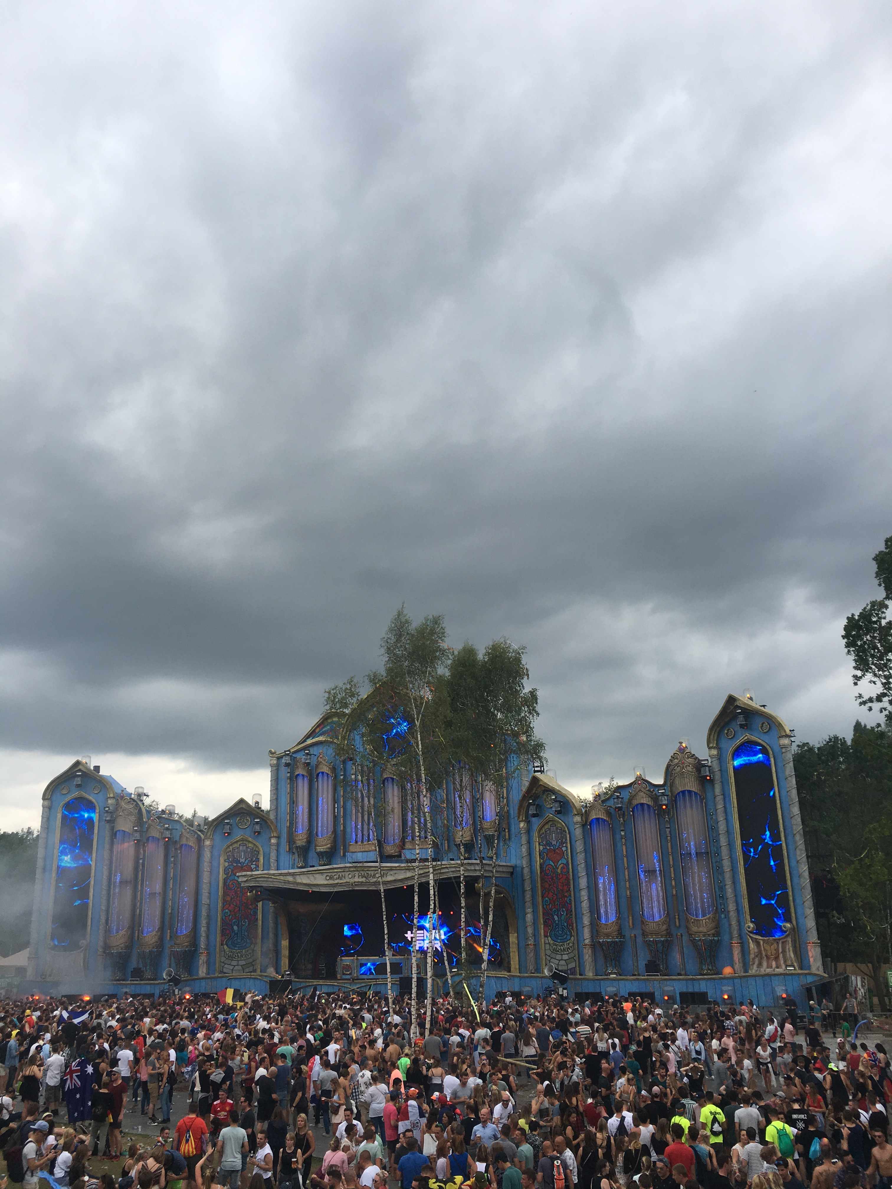 One of the Tomorrowland's stage, 2017, july 29, during the Henri PFR set.